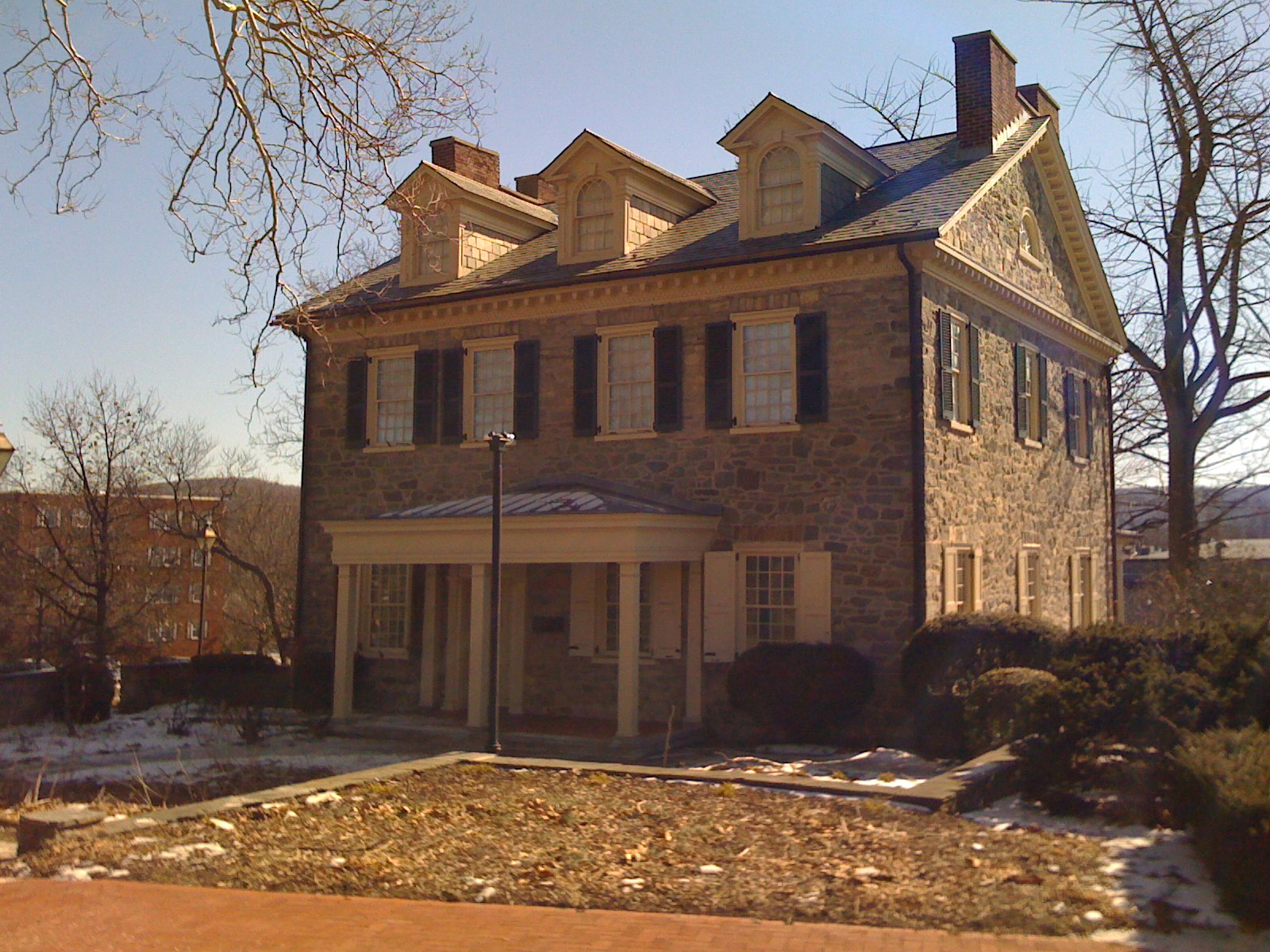 Trout Hall (built 1770) is one of the oldest homes in Allentown, Pennsylvania, and was built by James Allen, son of William Allen. The house at 1910 Walnut St., Allentown is older, being built in 1764, and rarer in that fewer homes for middle class people are still standing from this era. The building is located at 4th and Walnut Streets in Allentown. The home was later known as the Livingston Mansion. In 1848 it become the Allentown Seminary, and in 1867 was the original location of Muhlenberg College. Restored in 1905, Trout Hall is currently administered by the Lehigh County Historical Society.